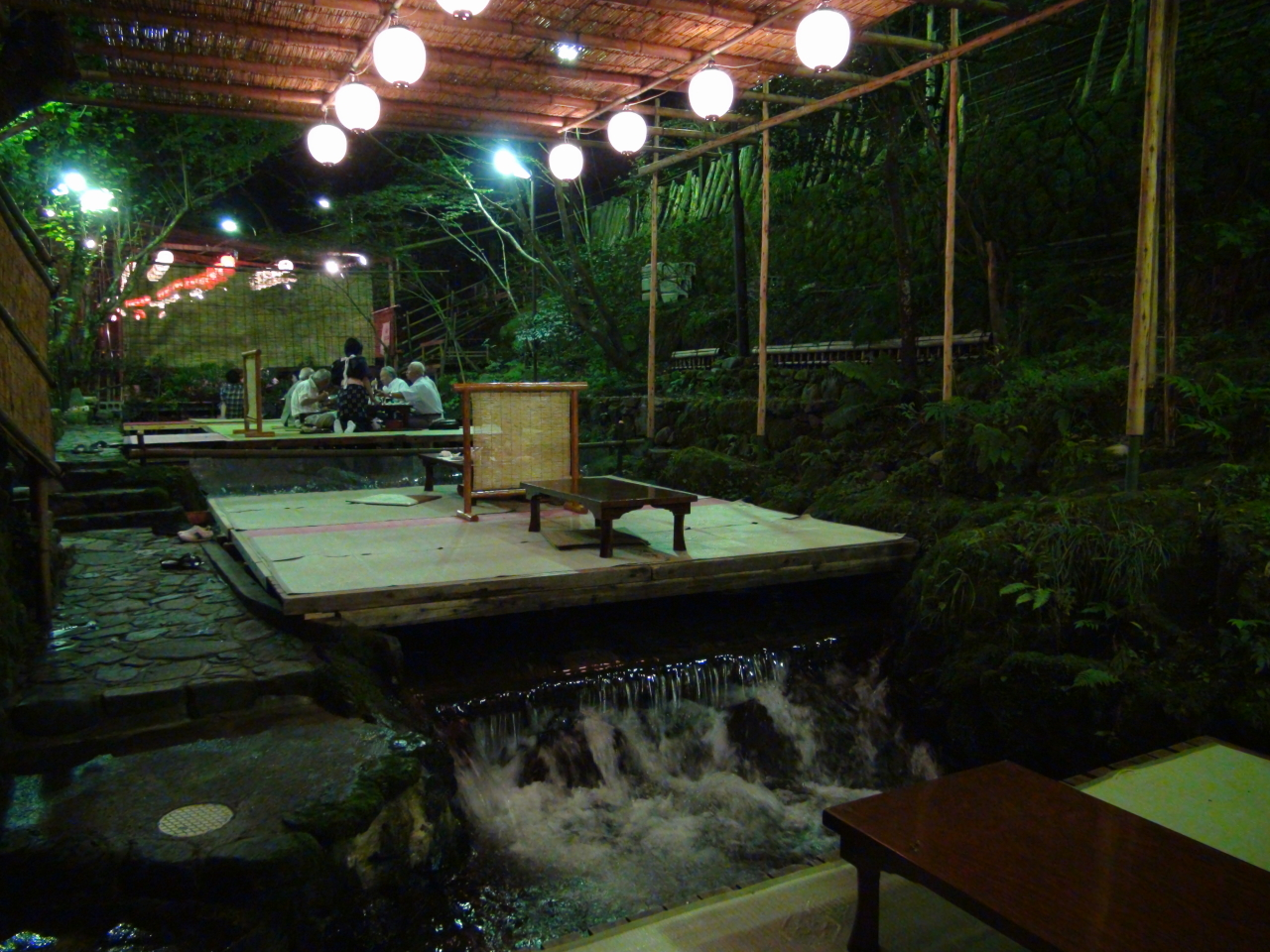 Kibune Kawadoko evening